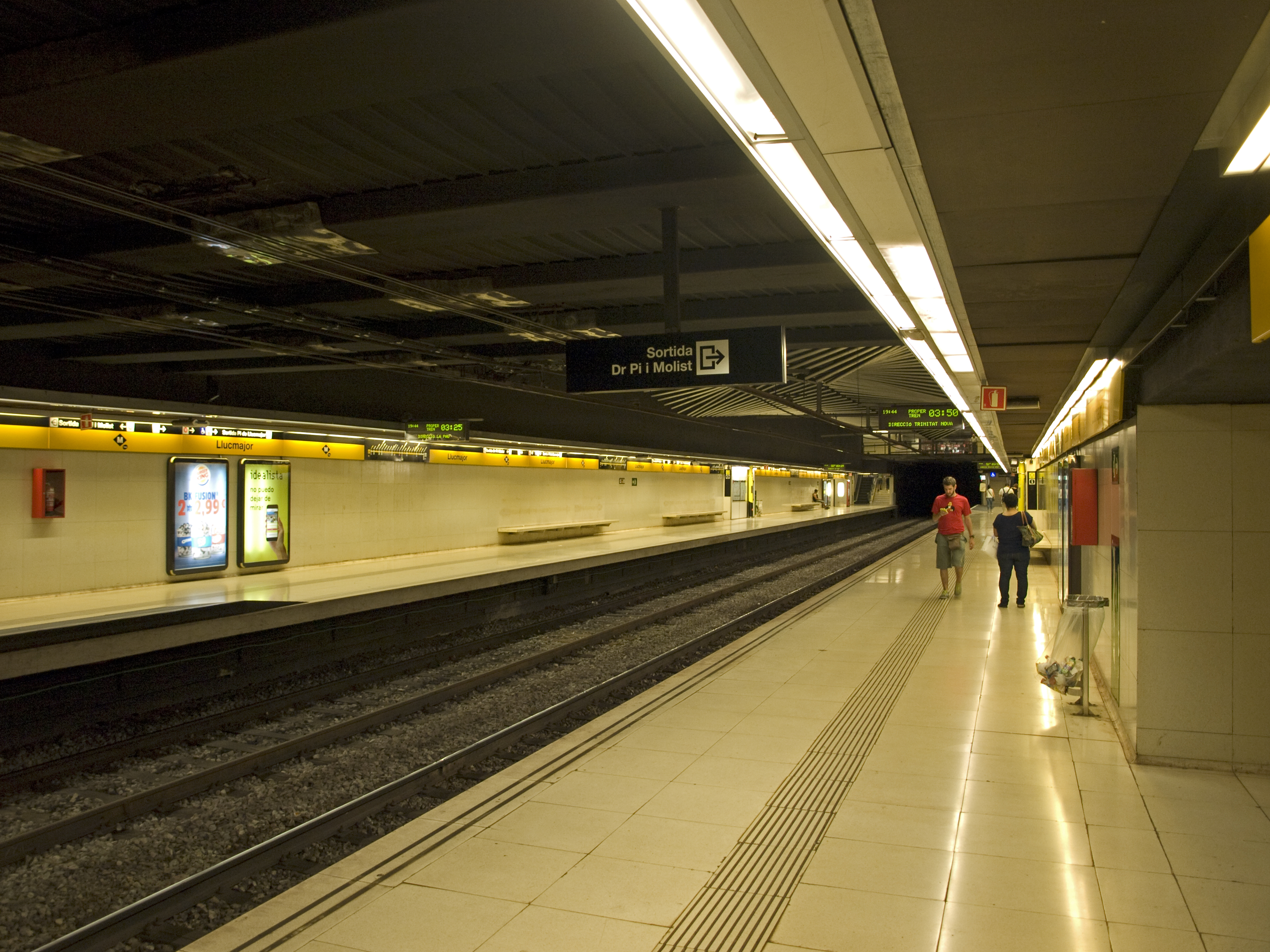 Llucmajor station platforms, line L4, Barcelona Metro. Taken from the northbound platform.